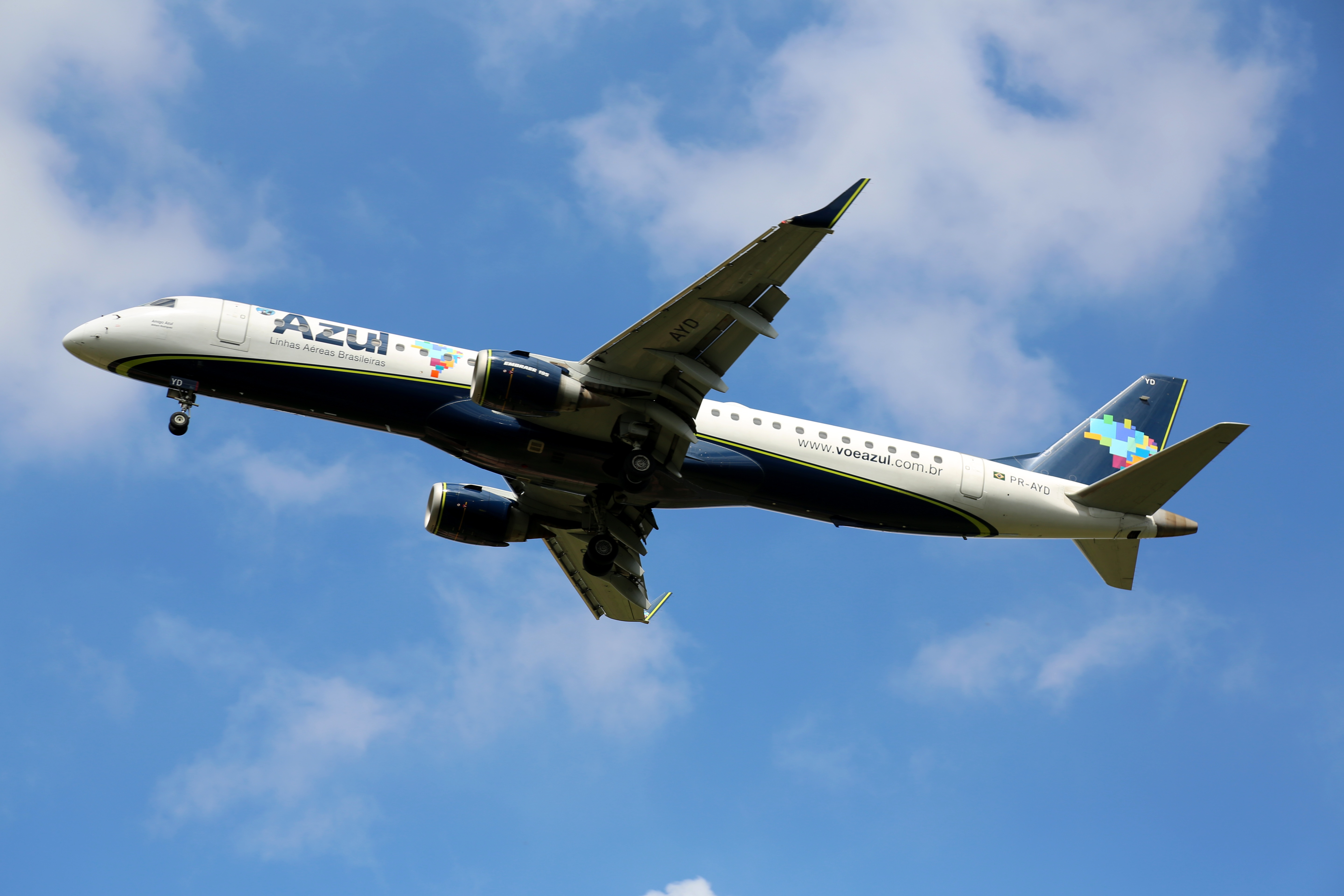 Azul Linhas Aéreas Brasileiras S/A